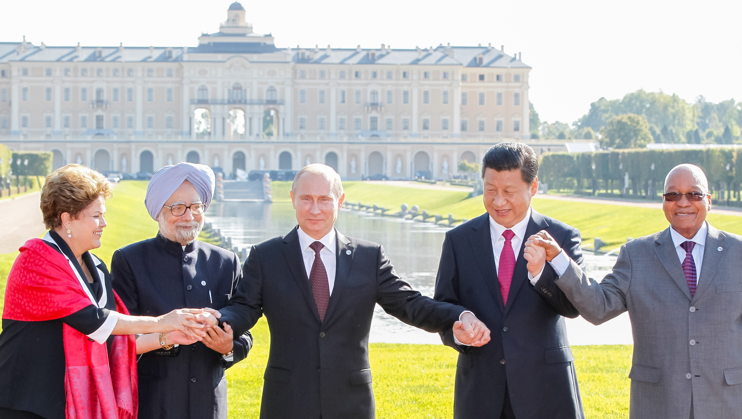 BRICS leaders at 2013 G-20 Saint Petersburg summit: Dilma Rousseff, Manmohan Singh, Vladimir Putin, Xi Jinping and Jacob Zuma.